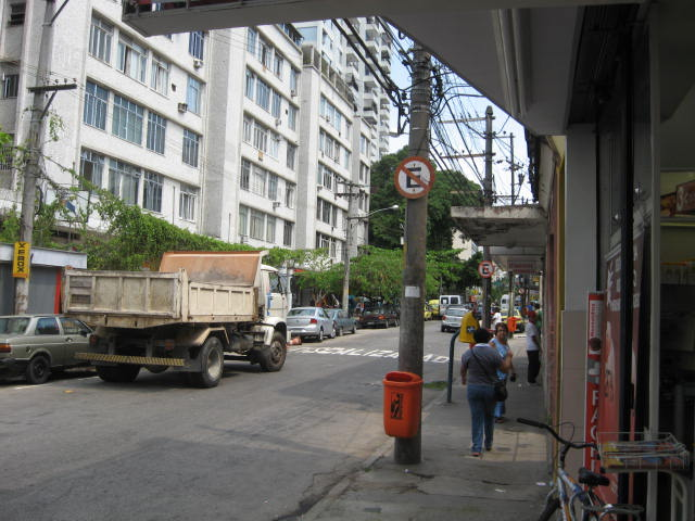 Do Mattoso Street, Rio de Janeiro city, Brazil.